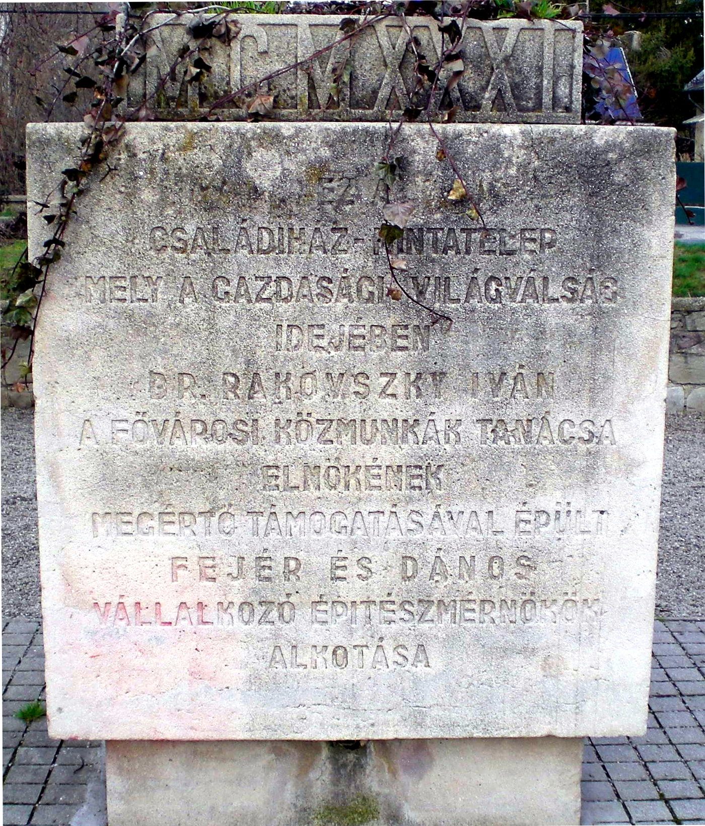 Memorial stone, 1931 - Settlement after the Great Depression in Budapest about 1930